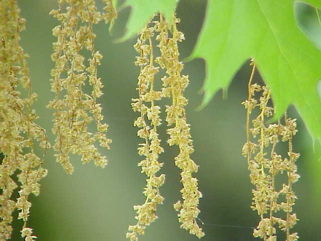 Species: Quercus coccinea Family: Fagaceae Image No. 1